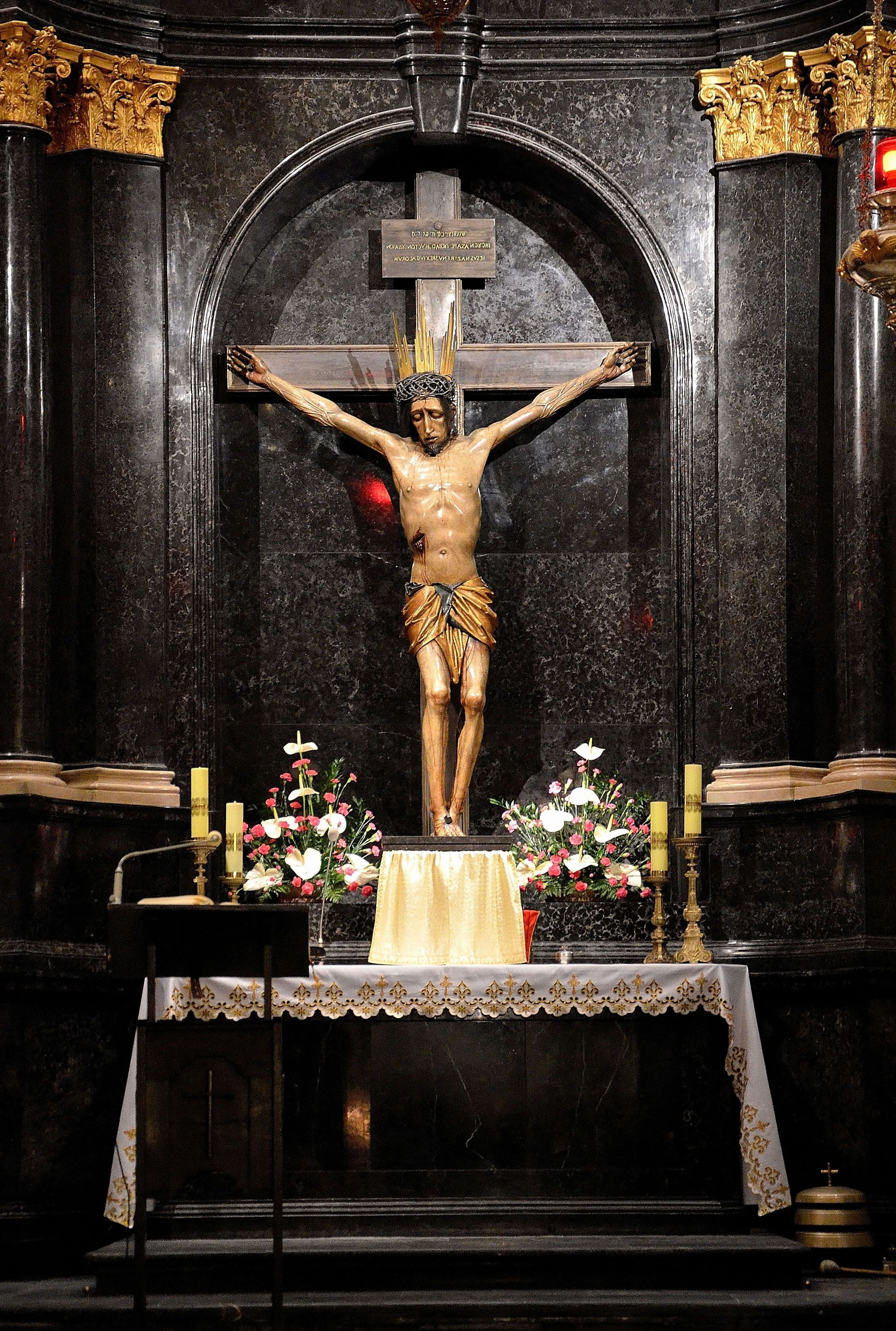 Crucifix in the Chapel of the Miraculous Lord Jesus, the St. John's Cathedral in Warsaw